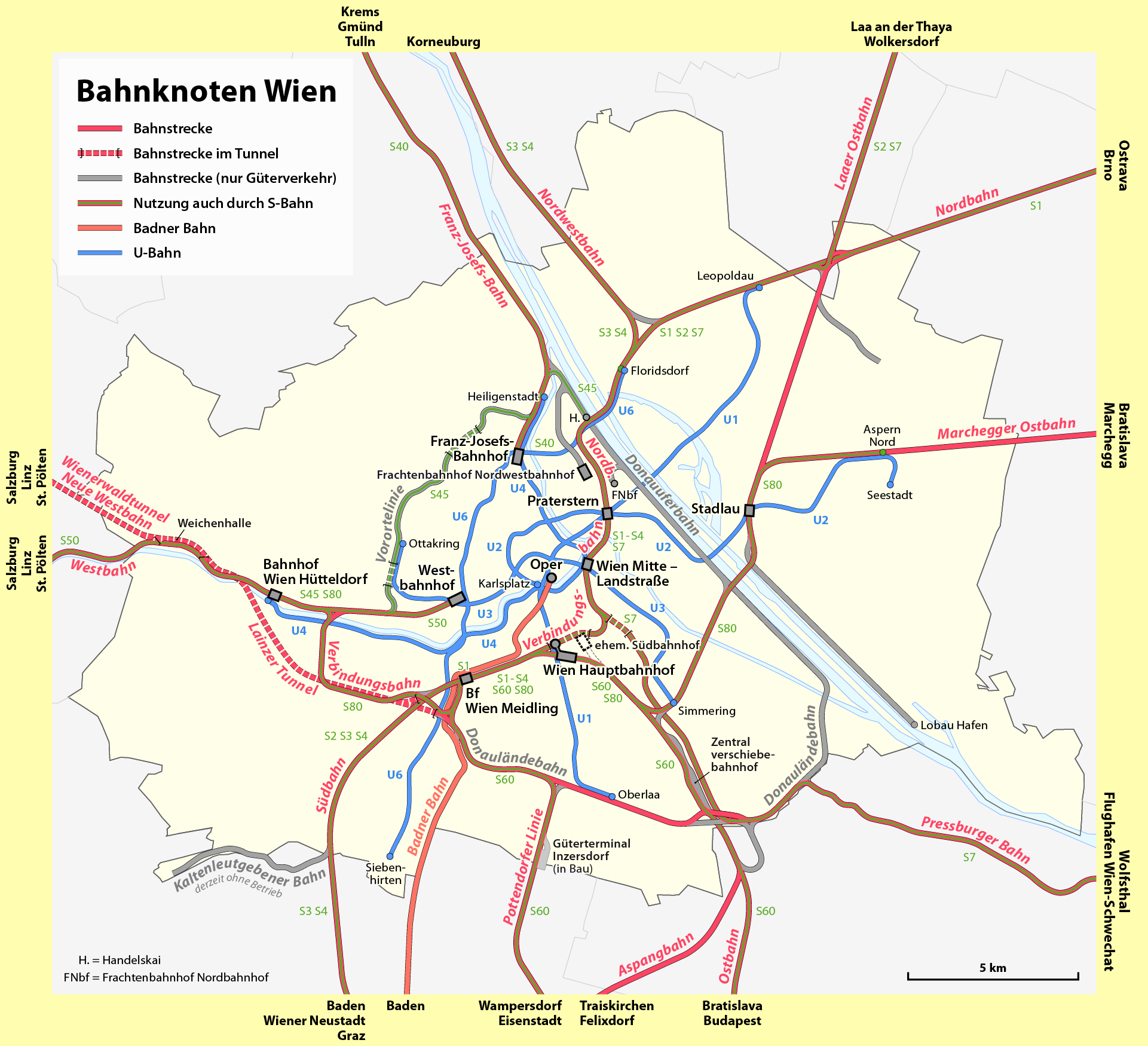 Map of the Vienna railway node